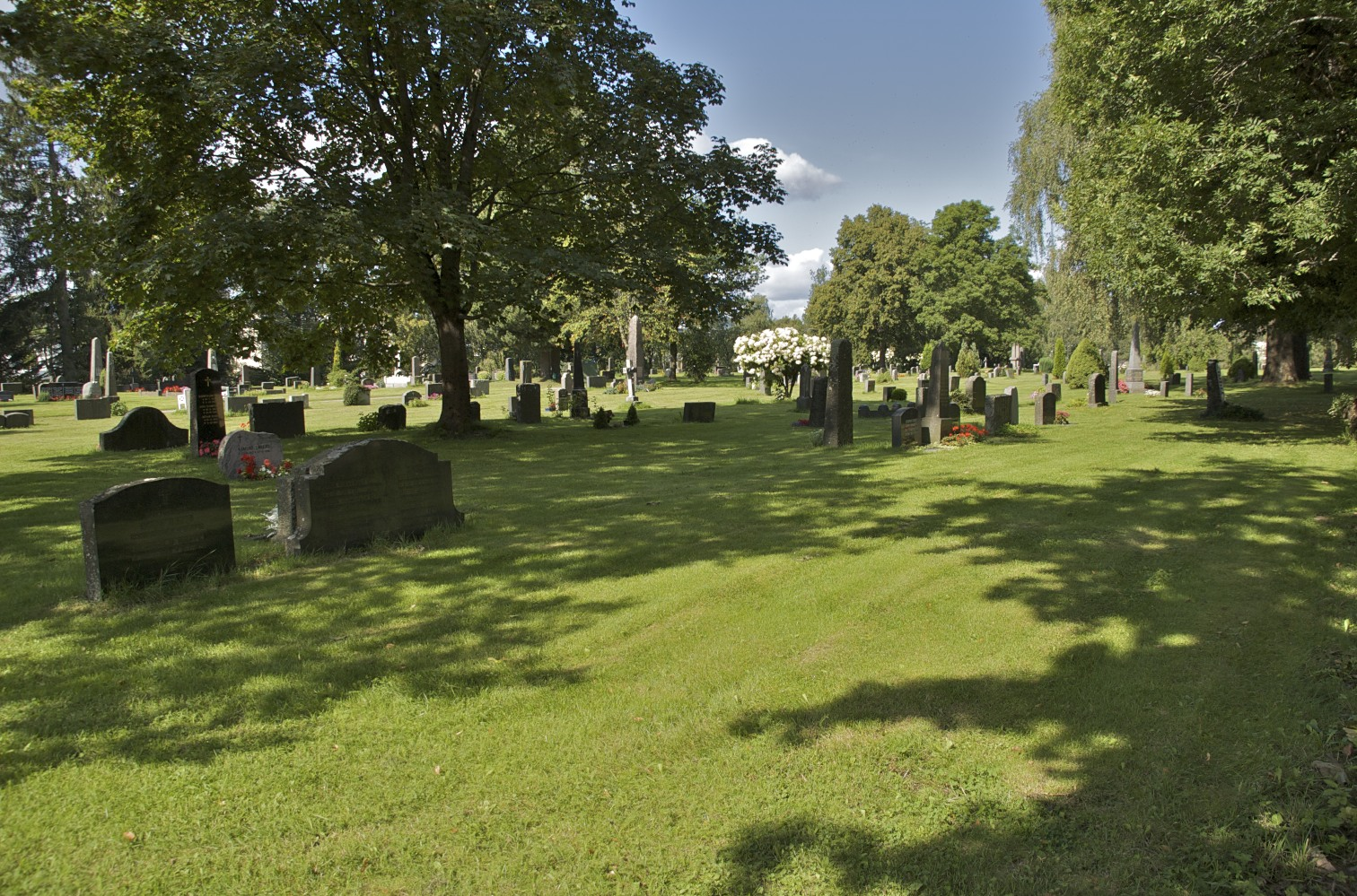 Johannes Cemetery in Skien, Norway.